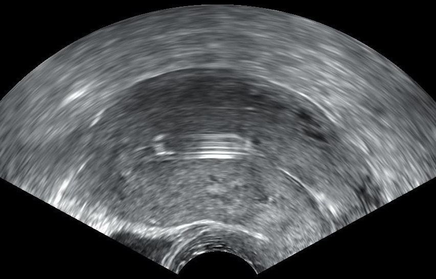 Vaginal ultrasonography of a Mirena type of intrauterine device with progestogen in optimal place in the uterus.